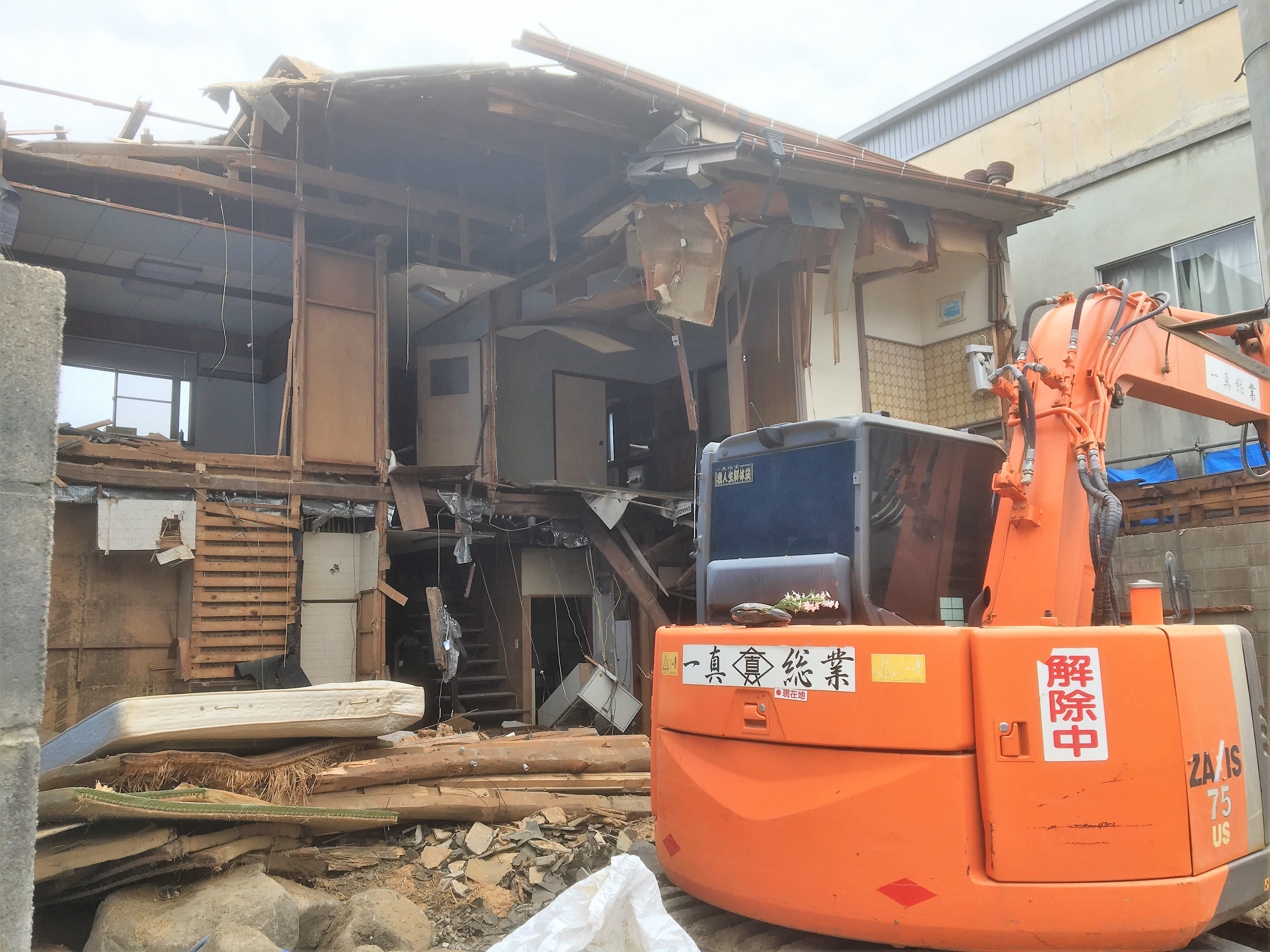 Dismantling construction JAPAN 2016 / Demolition of the Old wooden house (JAPAN)